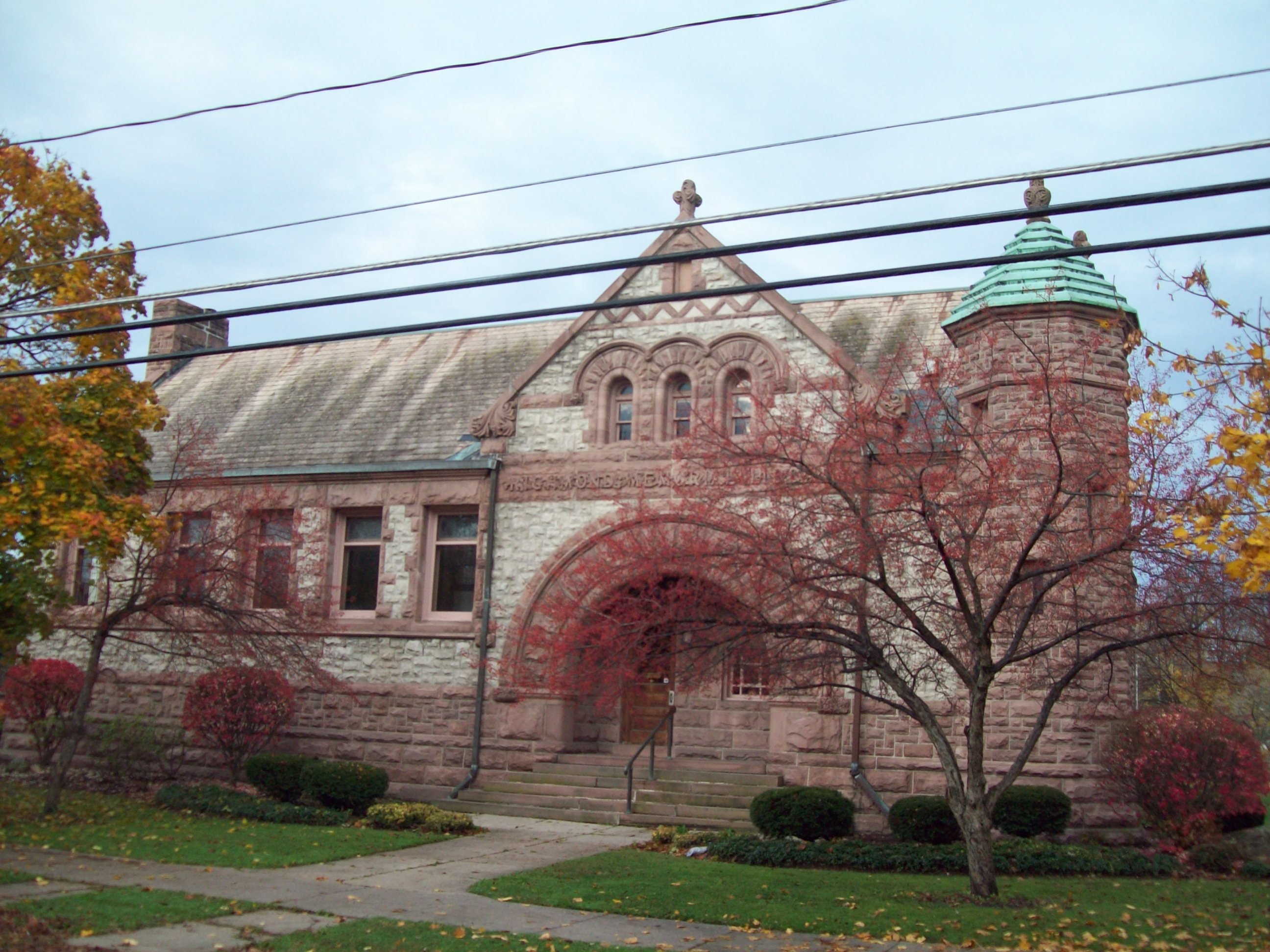 Richmond Memorial Library, October 2009